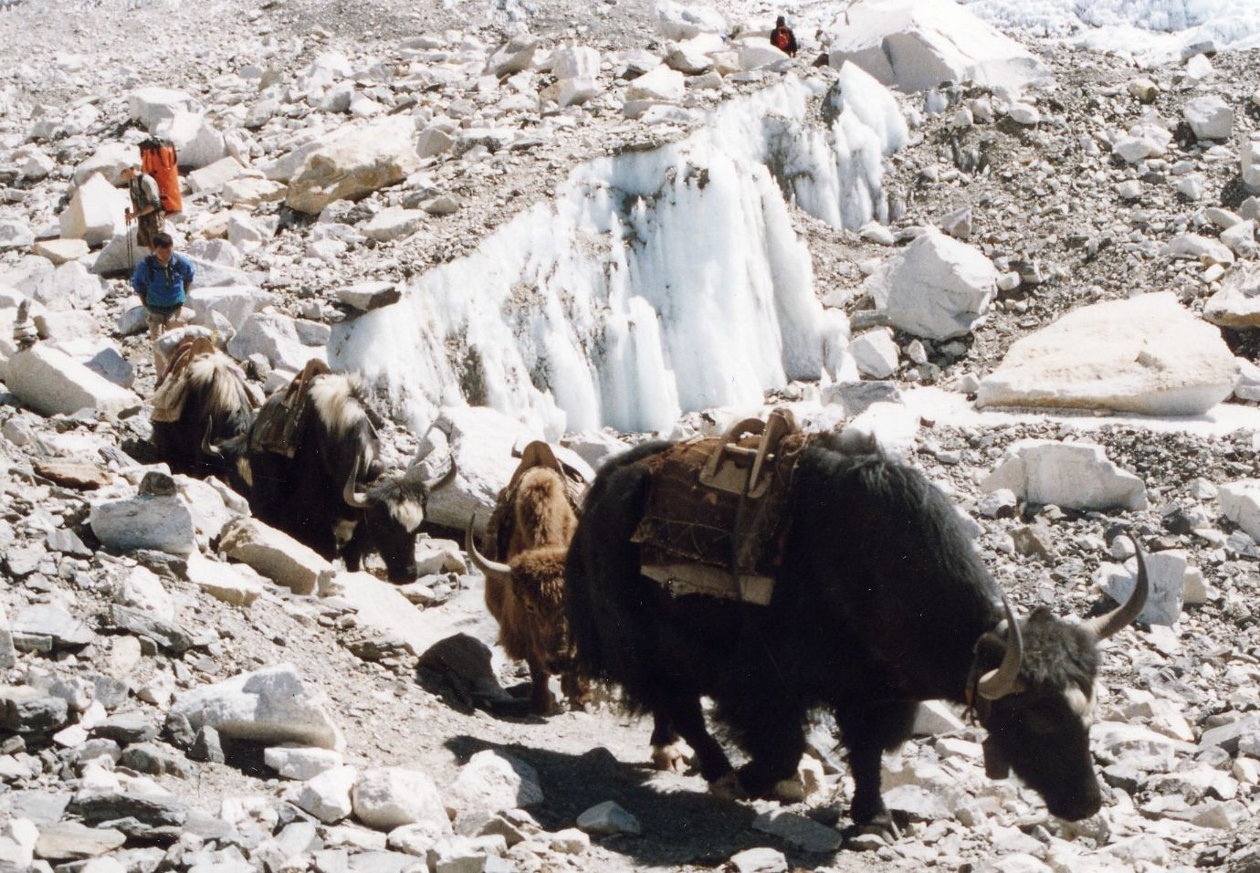 Yak_in te Khumbu Icefall on_way_to_Everest base camp